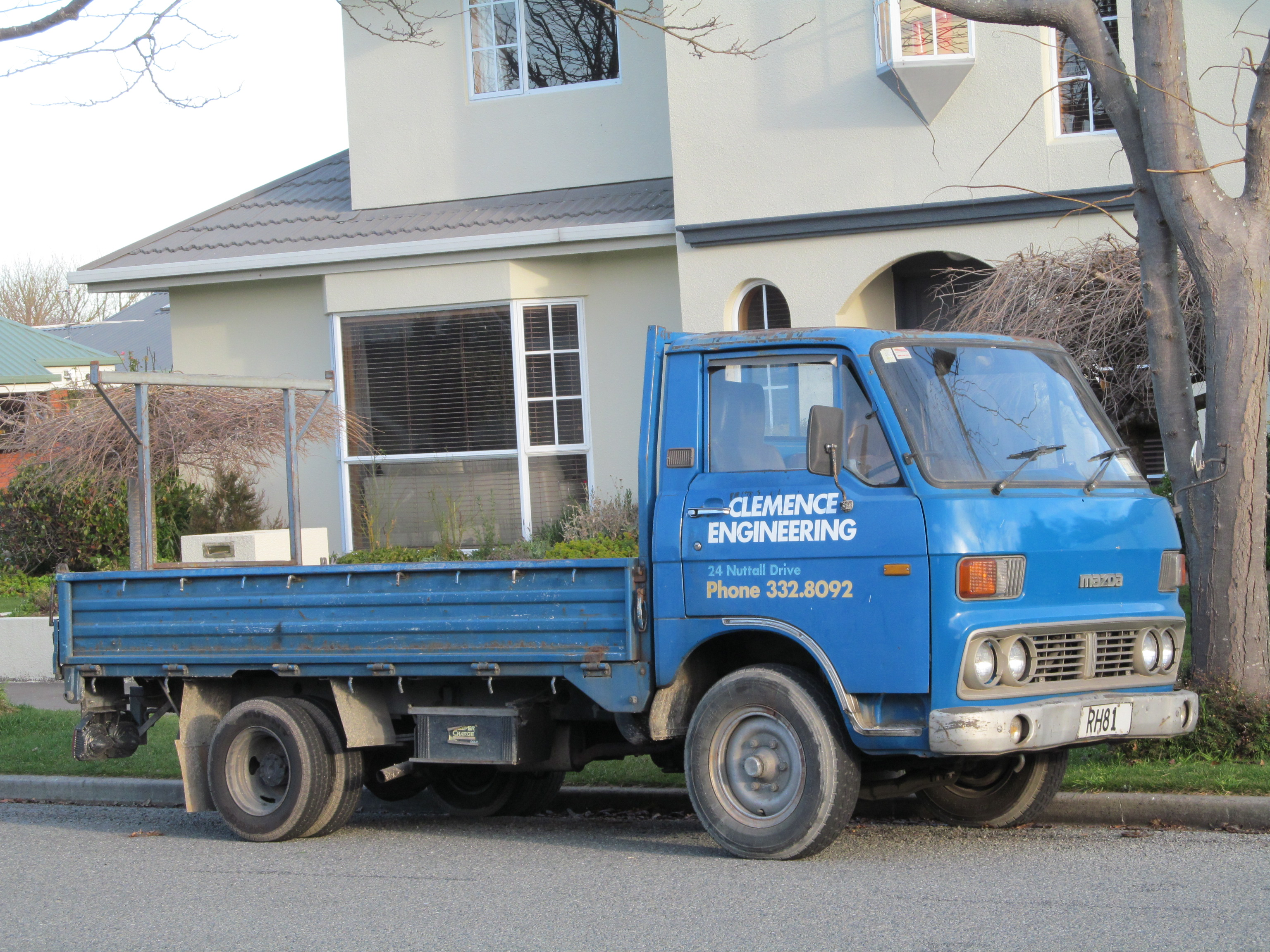 RH81 This has recently appeared outside a rather grand house in my neighbourhood, and looks a bit out of place to say the least! It's amazing that a 32-year-old truck (and a Japanese import at that) is still running in 2013 - and it's still in reasonable condition as well. Most other Jap import trucks of the same age were absolutely hanging by the time they reached 15 years old...